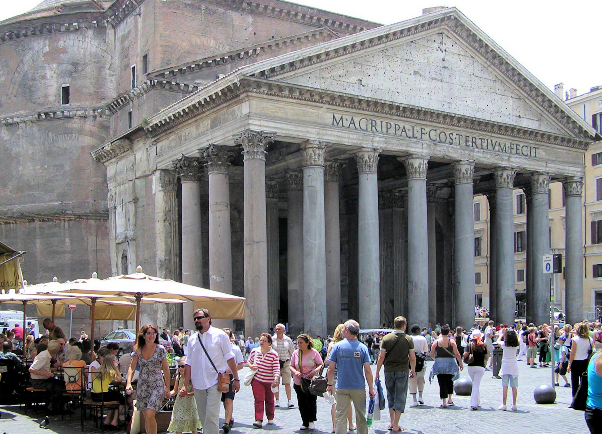 The Pantheon in Rome, Italy. The pediment of this 2000-year-old building is the triangular piece above the columns. The tympanum is the area inside the triangle (plain, on this building).